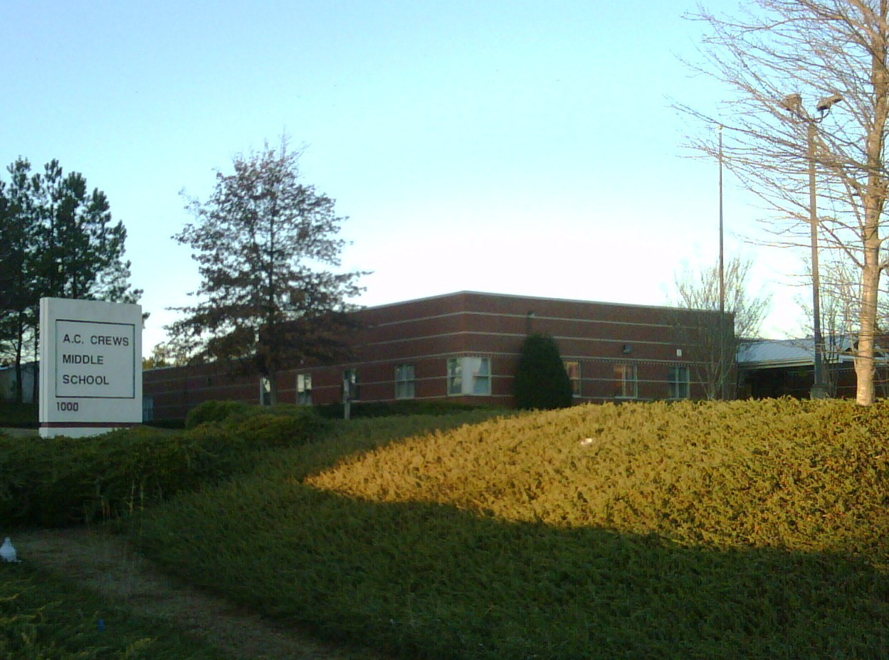 Alton C. Crews Middle School from entrance (January 1, 2009)